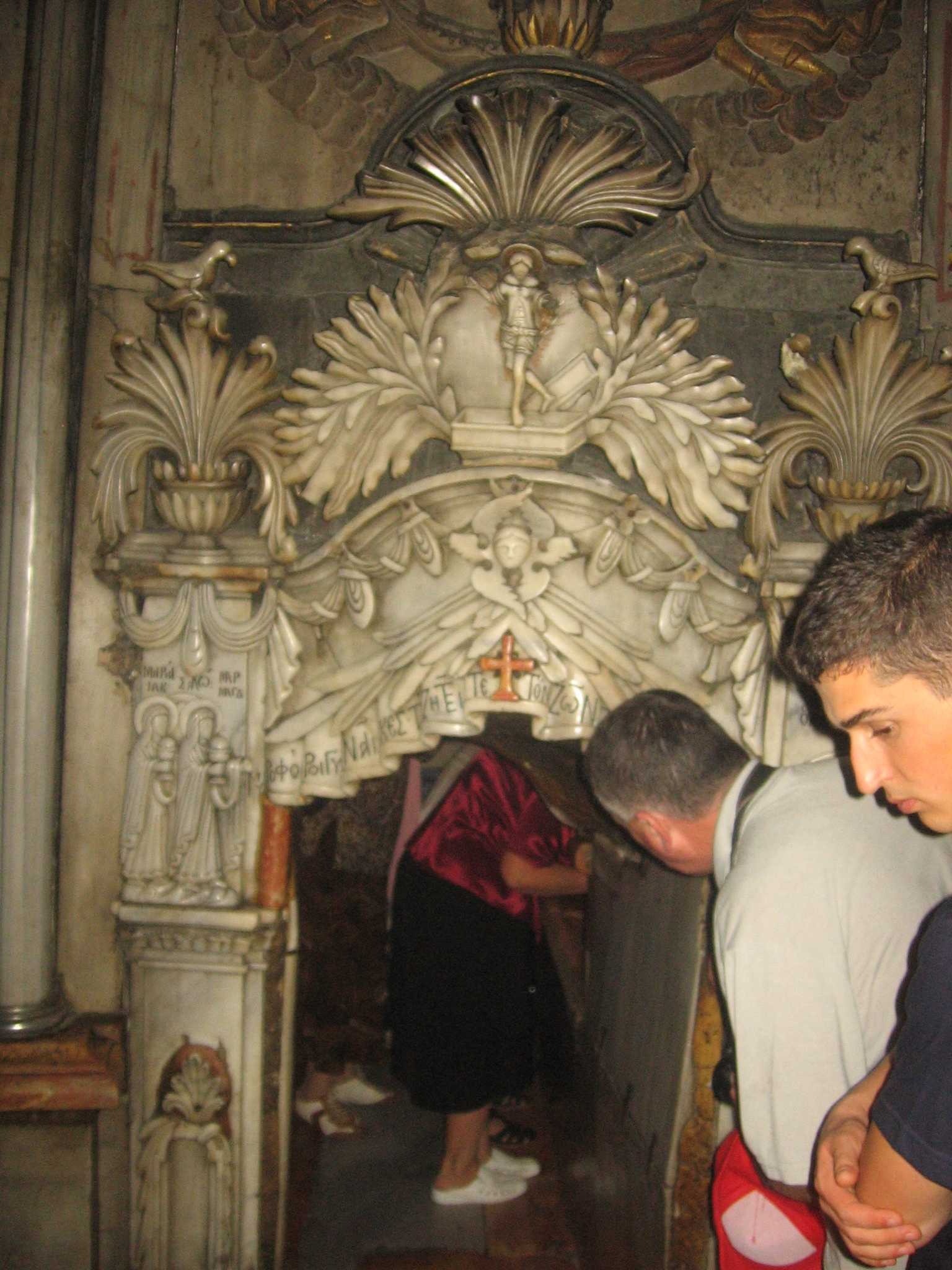 Enty to Holy Sepulchre in Jerusalem